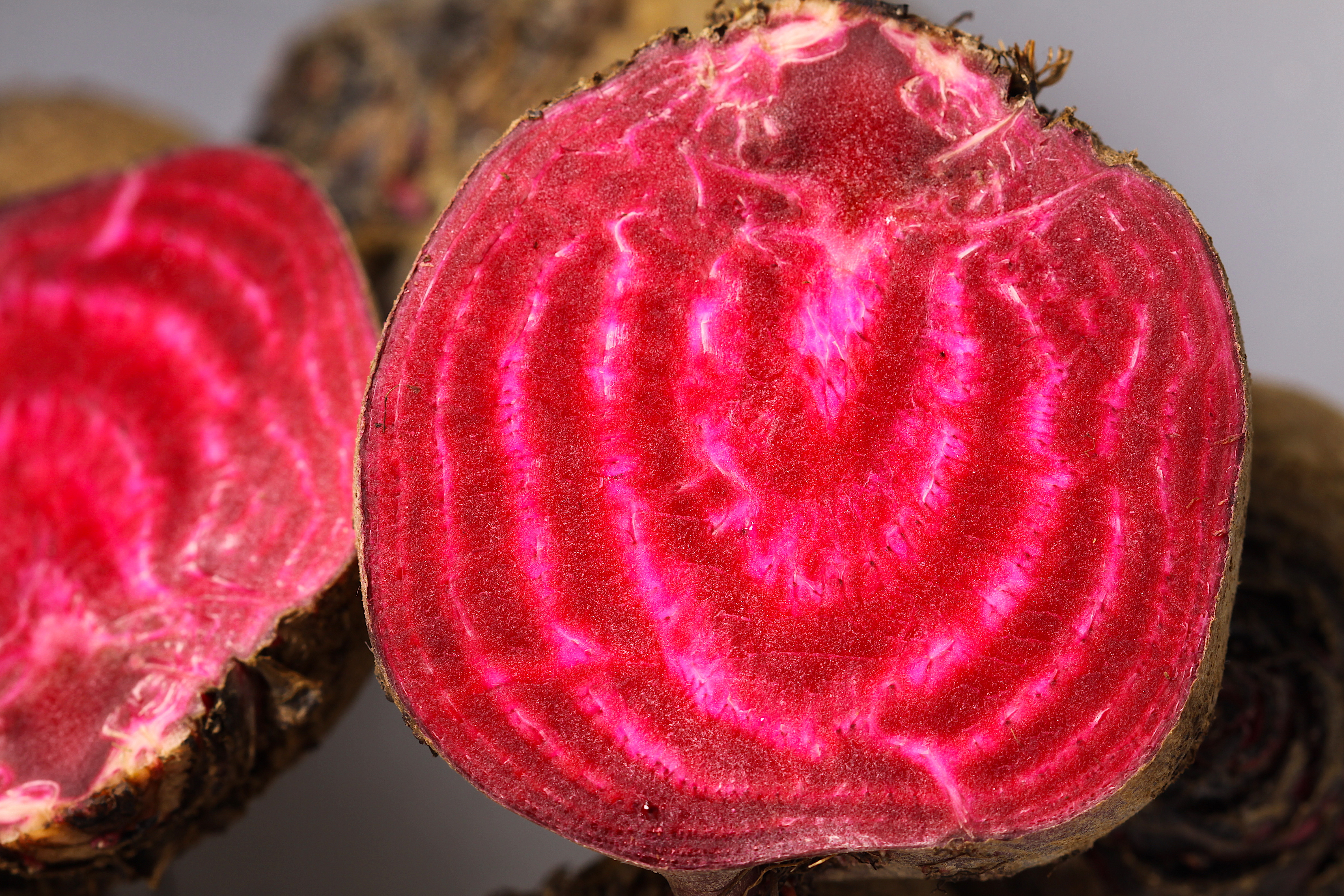 close up for Beetroot Inner Skin